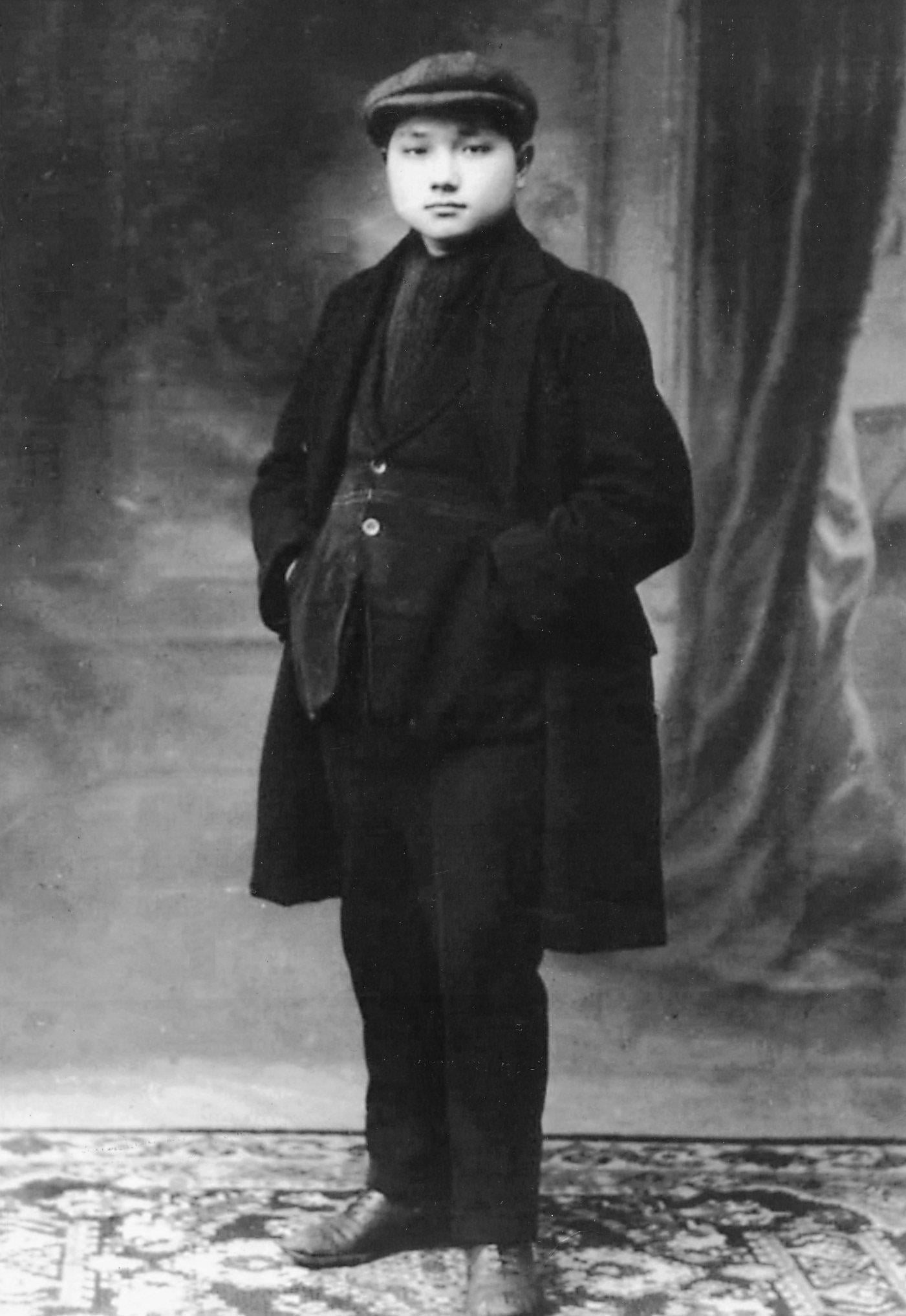 Student Deng Xiaoping in Lyon, France.